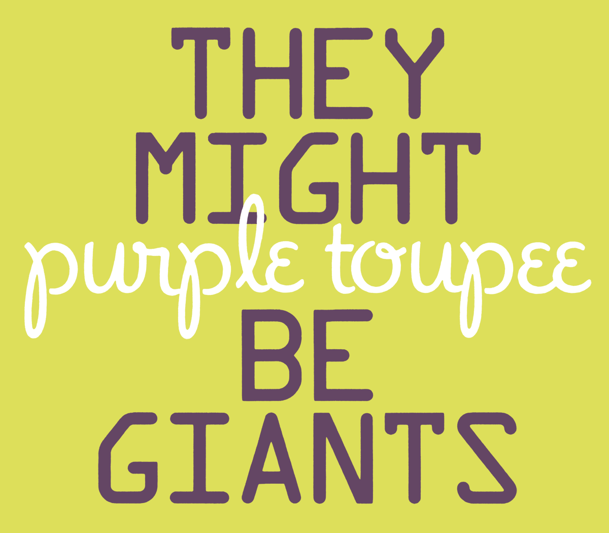 Cover of the Purple Toupee promotional CD by They Might Be Giants